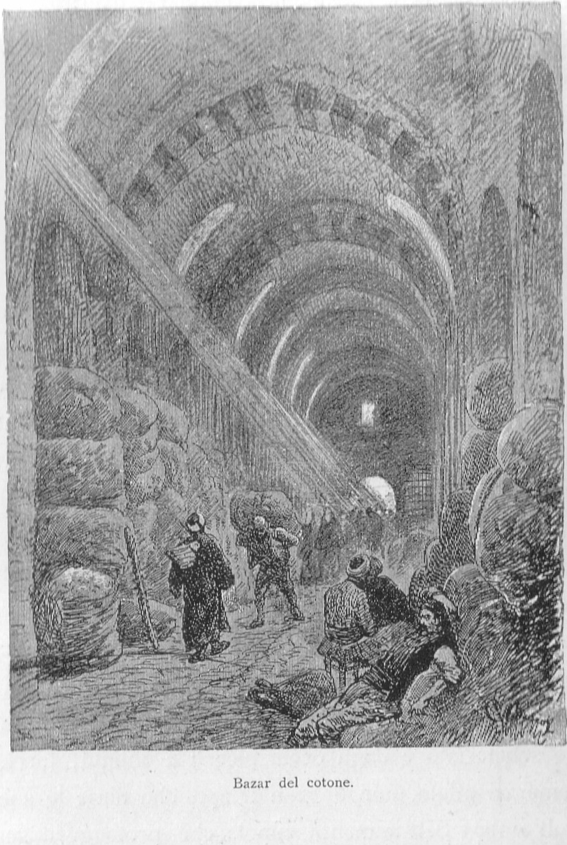 Biseo's drawing from De Amicis book "Costantinopoli" c.1878. The Grand Bazaar, in Ottoman Constantinople (Istanbul).